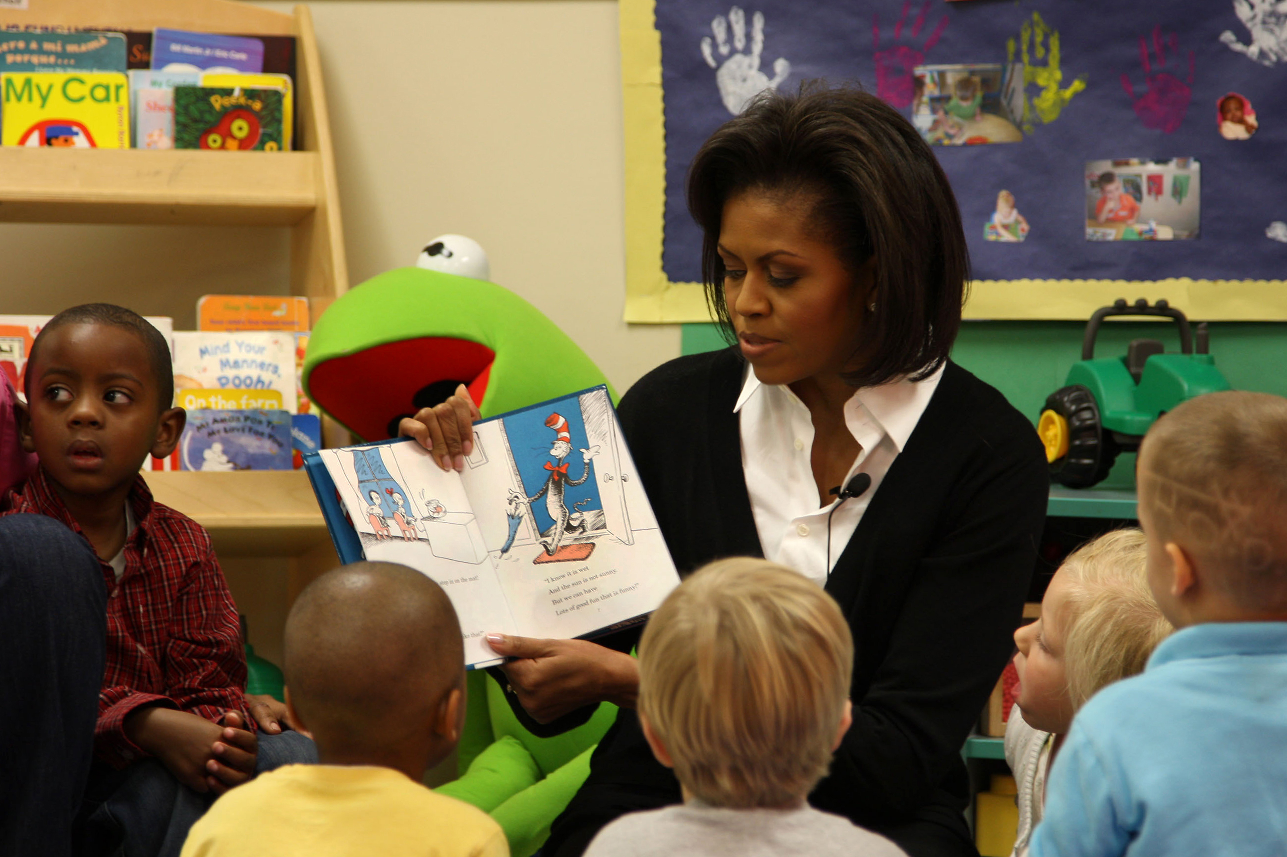 First Lady Michelle Obama reads "The Cat in the Hat" to children in Ms. Mattie's class at Prager Child Development Center March 12, during her visit to Fort Bragg, N.C. The First Lady spoke with Soldiers and Family members as part of her initiative to care for military families. First Lady vows support for military families